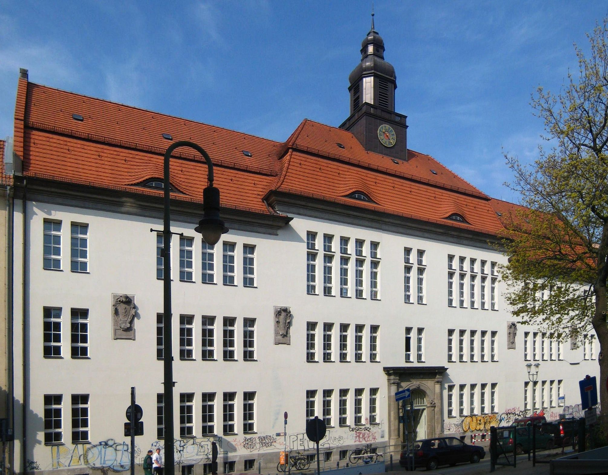 The former 1st Municipal School, Koppenplatz No. 12, in Berlin-Mitte. It was built from 1902 to 1907 to a design by Ludwig Hoffmann. The building has been designated as a historic landmark.